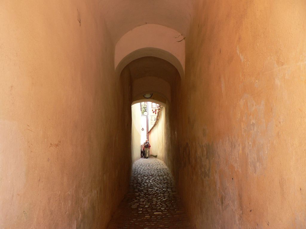 Strada sforii in Brasov, Romania